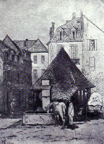 Etching by Maria de Hohenzollern with a view of a village, published in the catalog of the V Barcelona International Art Exhibition of 1907.